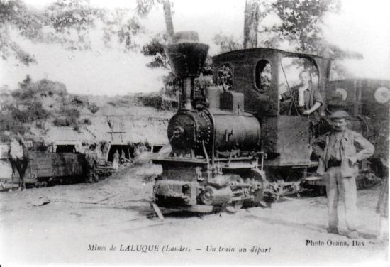 Probably a 20 hp Krauss steam locomotive